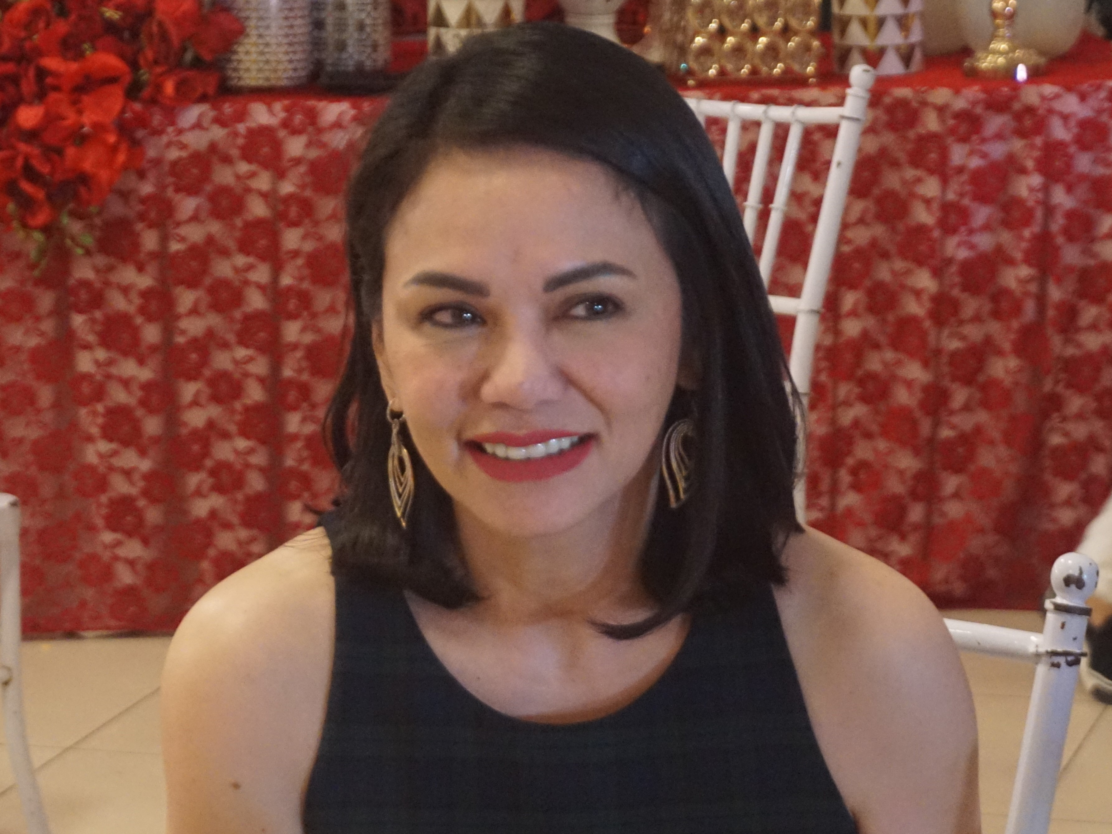 Agusan del Norte 2nd District Representative Angelica Amante at Almont Inland Resort last November 30, 2019.